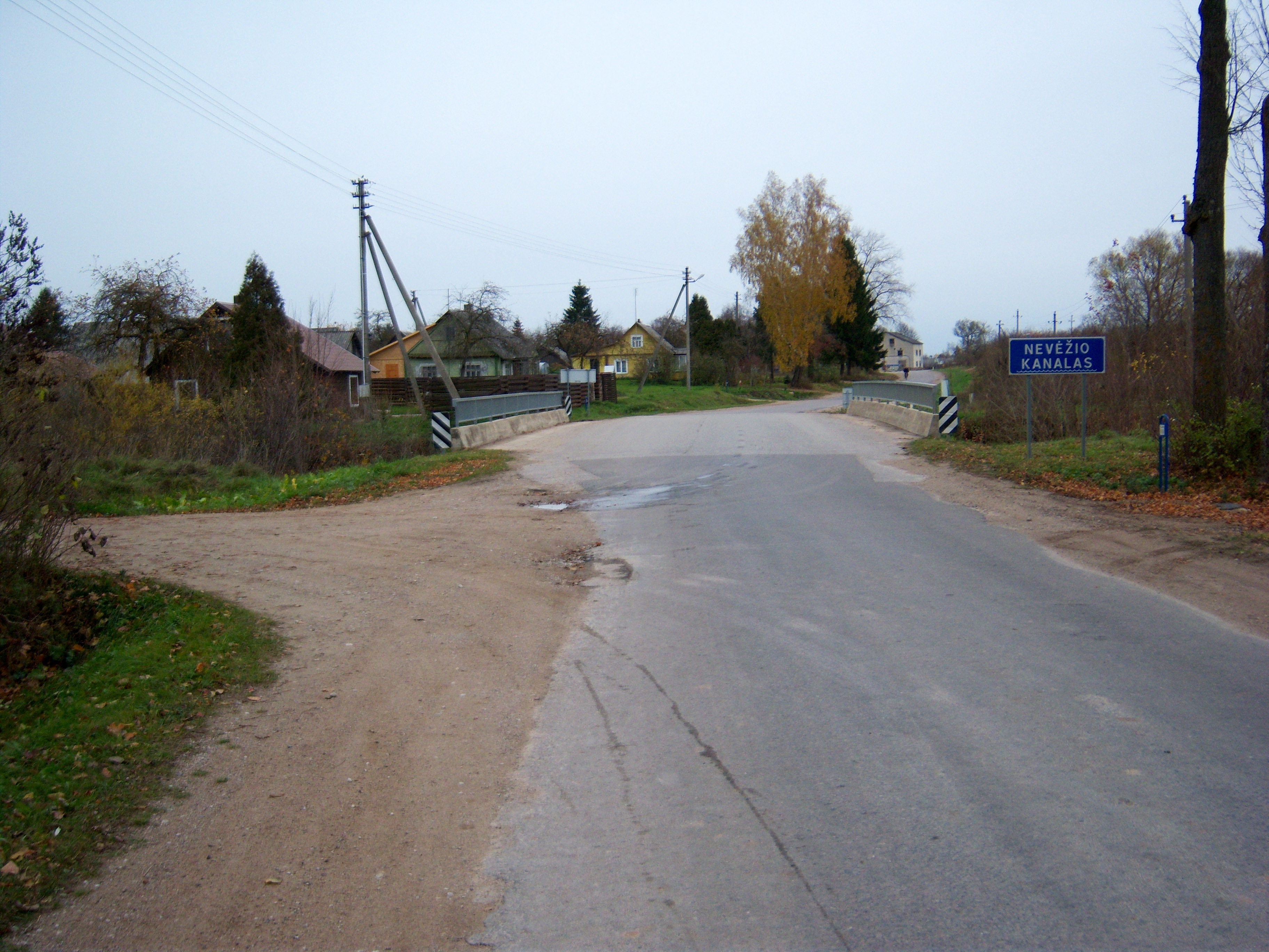 Janušava, Anykščiai District. Lithuania